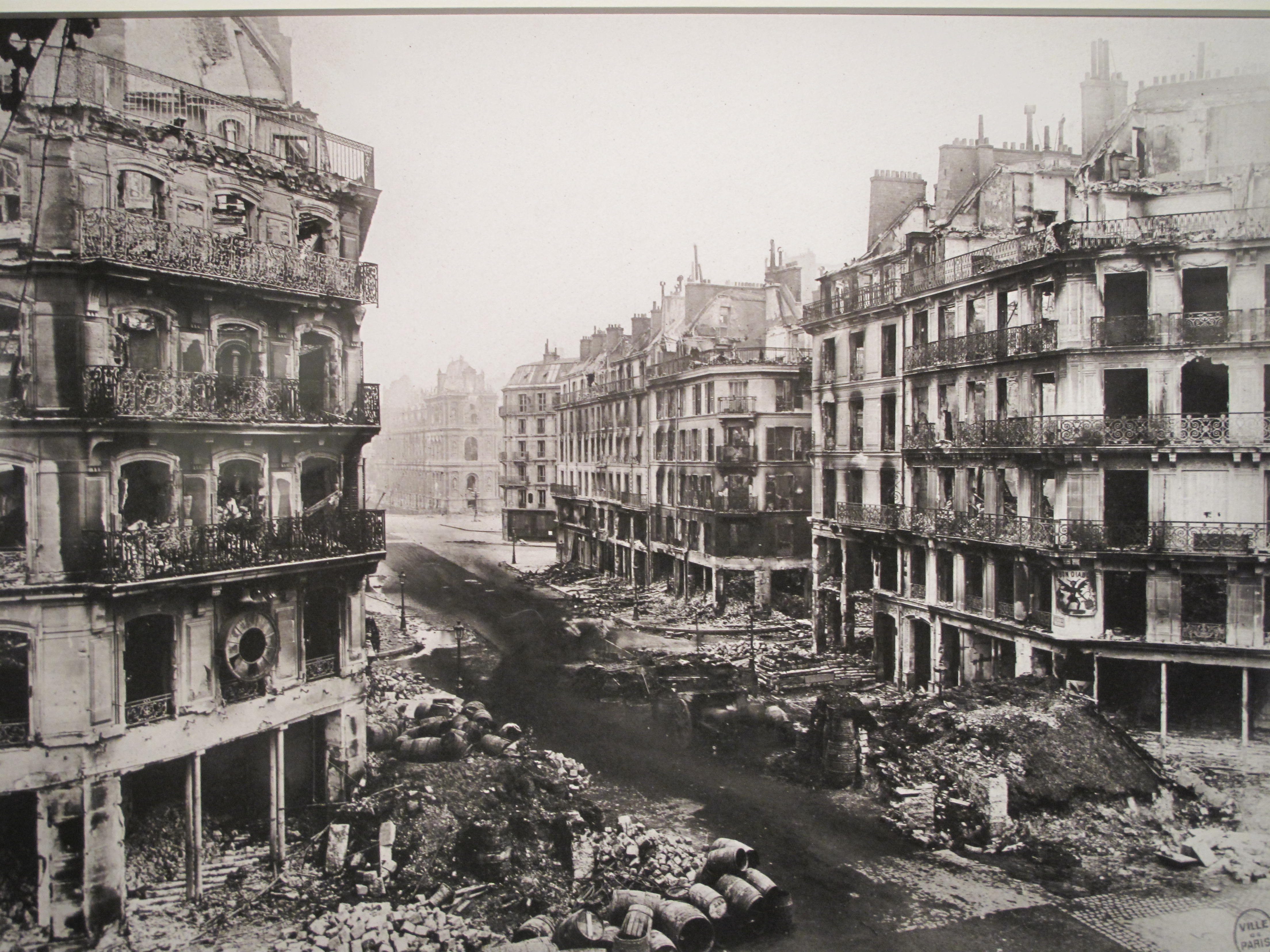 The rue de Rivoli after the fights and the fires of the Paris Commune, Paris 4th arr. In the background, the hôtel de ville de Paris